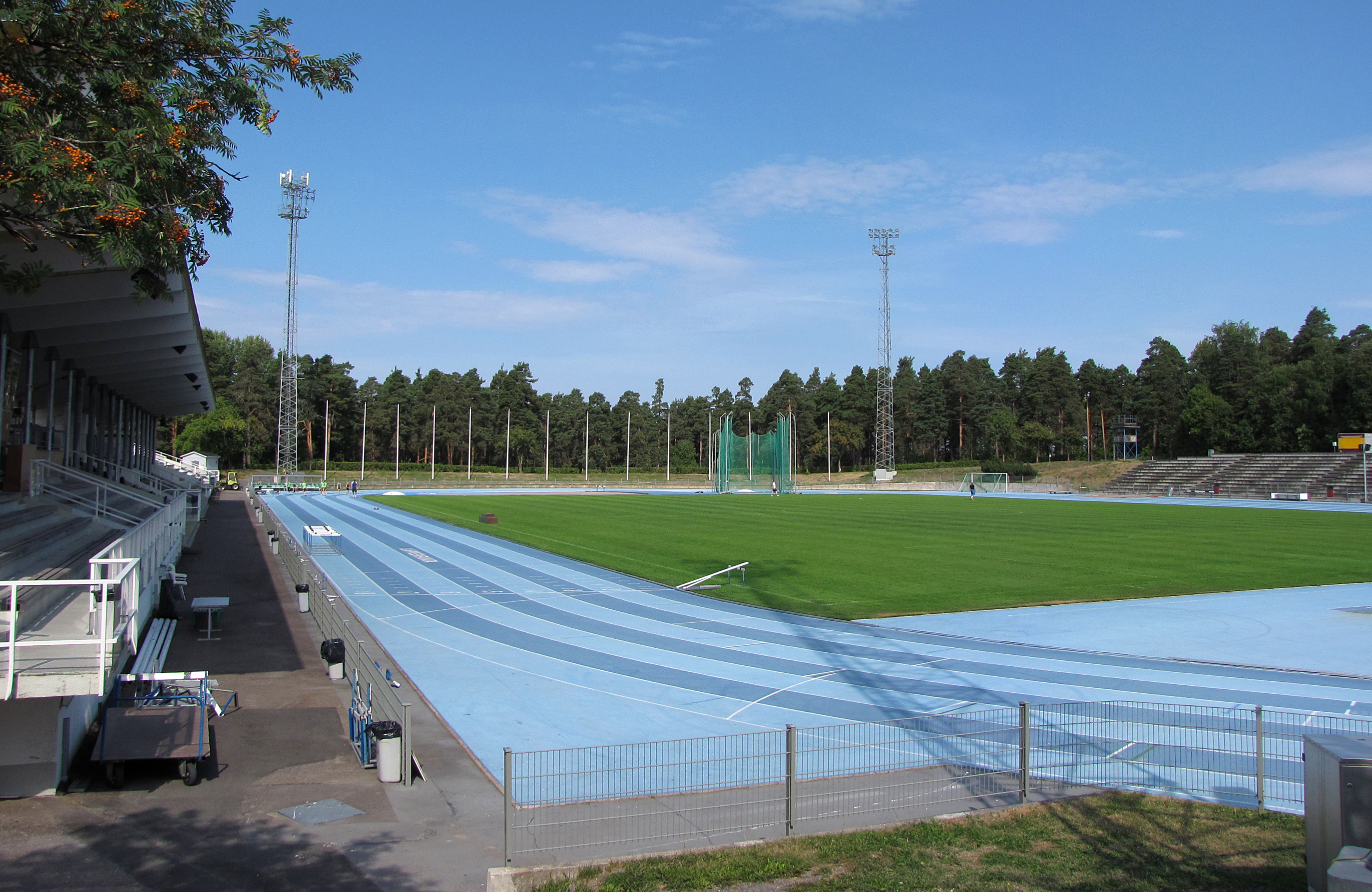 Kimpinen sports stadium in Lappeenranta, Finland. Serves as an athletics venue as well as a football stadium.